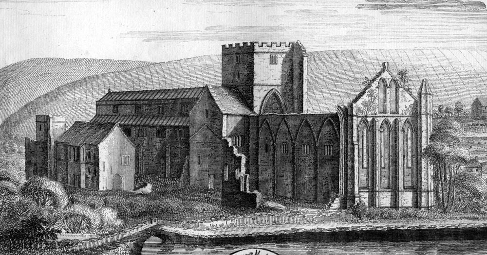 View of St Bees Priory in the County of Cumberland, by Samuel and Nathaniel Buck, 1739. To the left are the remains of the cloister, and to the right, the ruined choir of the monastic church. The nave is in use as the parish church